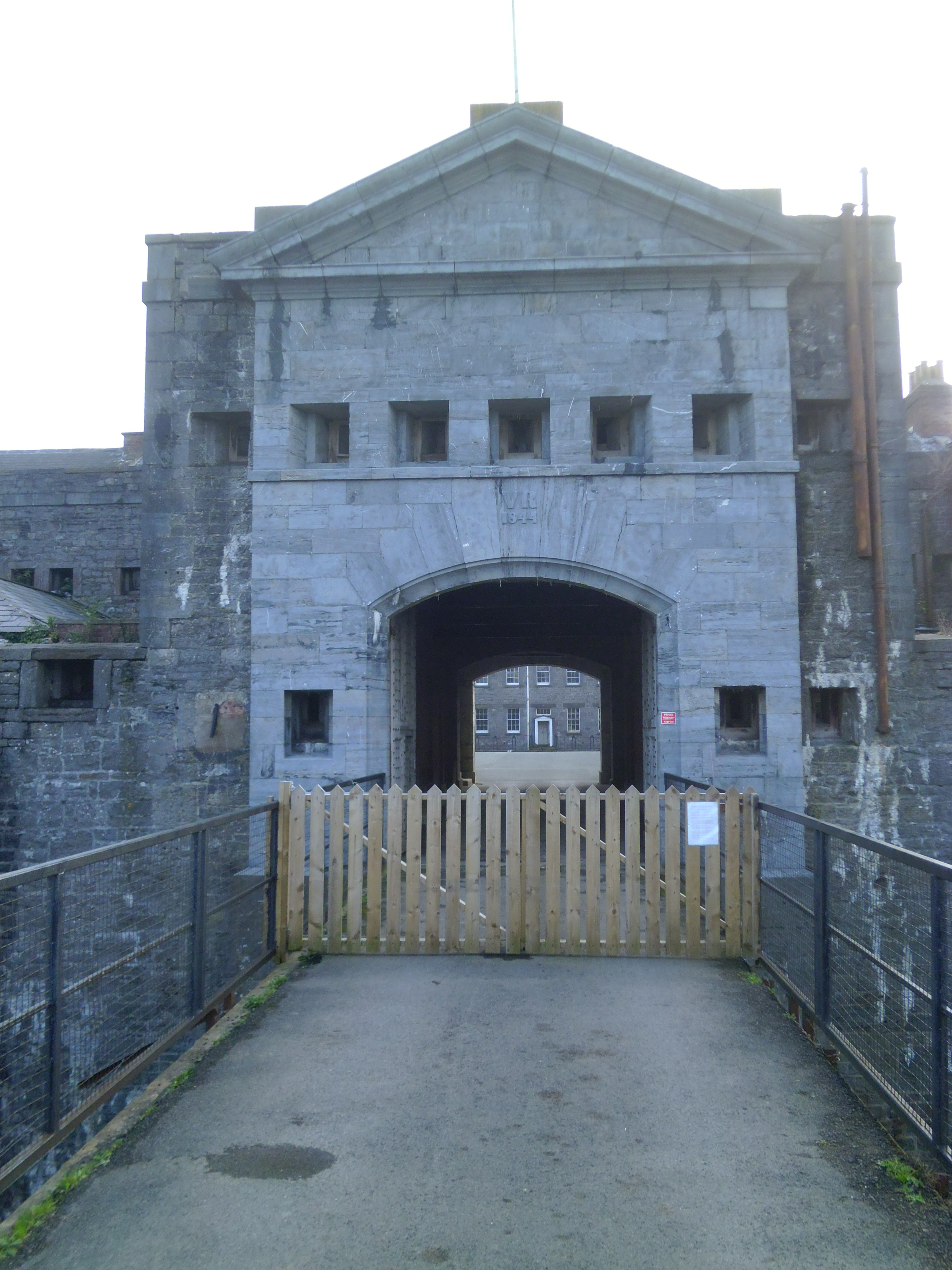 Main gate, Defensible Barracks